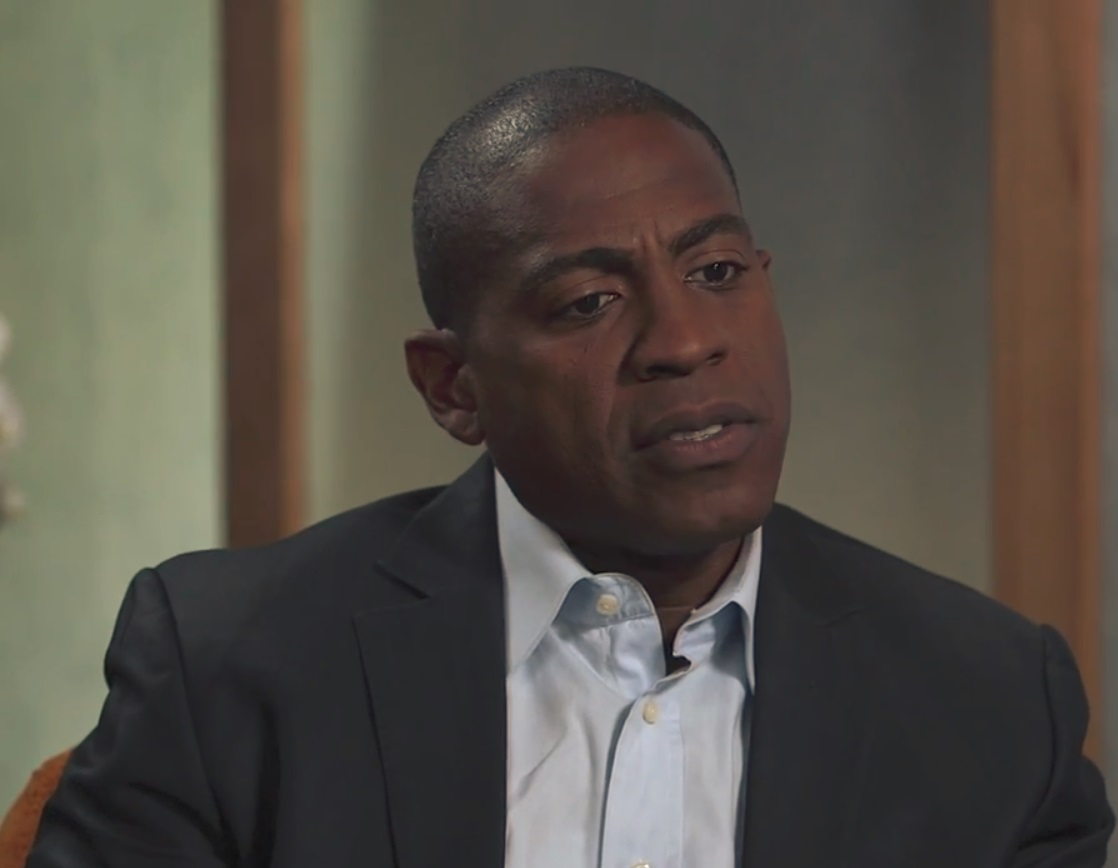 OZY Co-Founder Carlos Watson sat down with President Clinton on Nov. 9th 2013 to get his opinion on a number of topics.